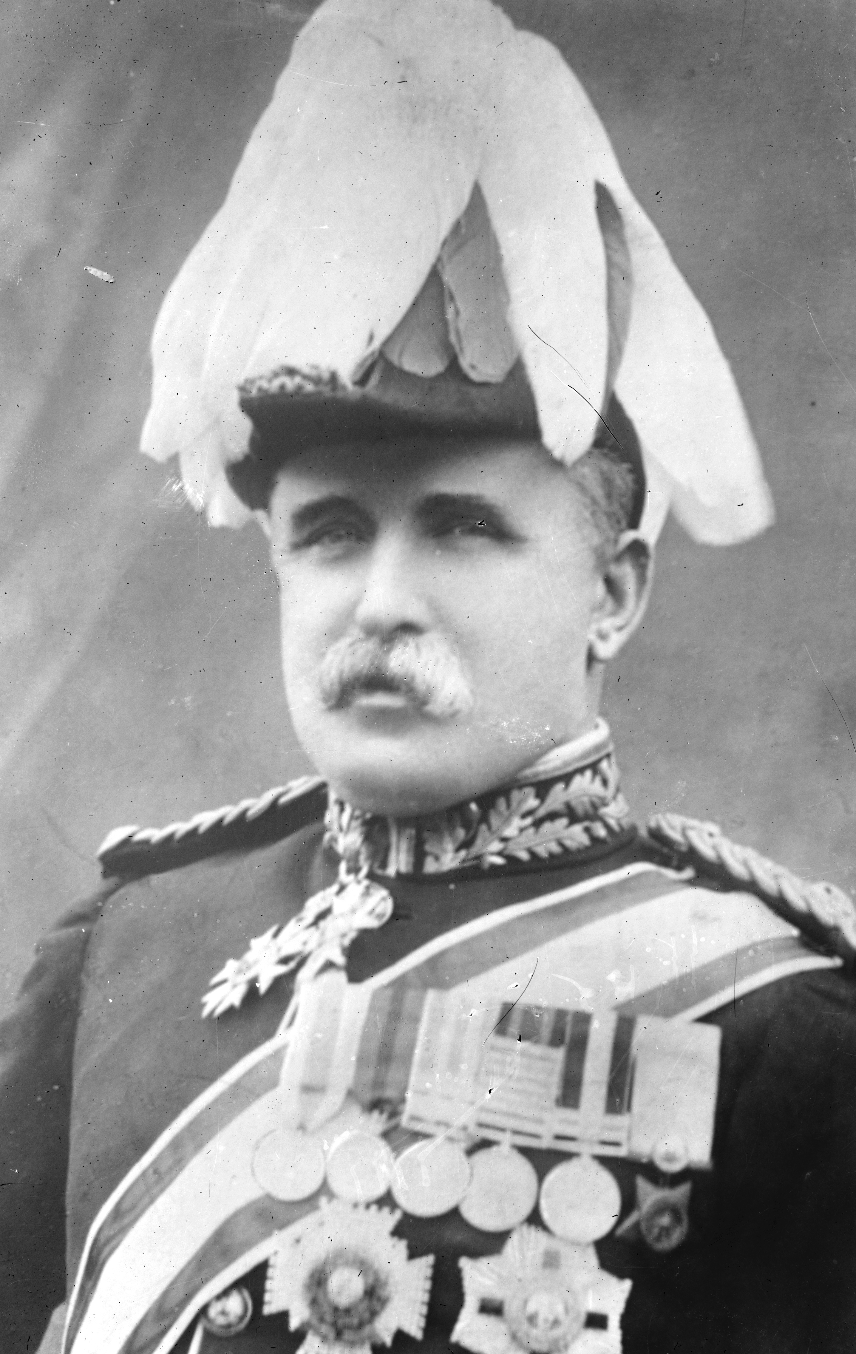 John French, 1st Earl of Ypres, British officer, Commander-in-Chief of the British Expeditionary Force in World War I